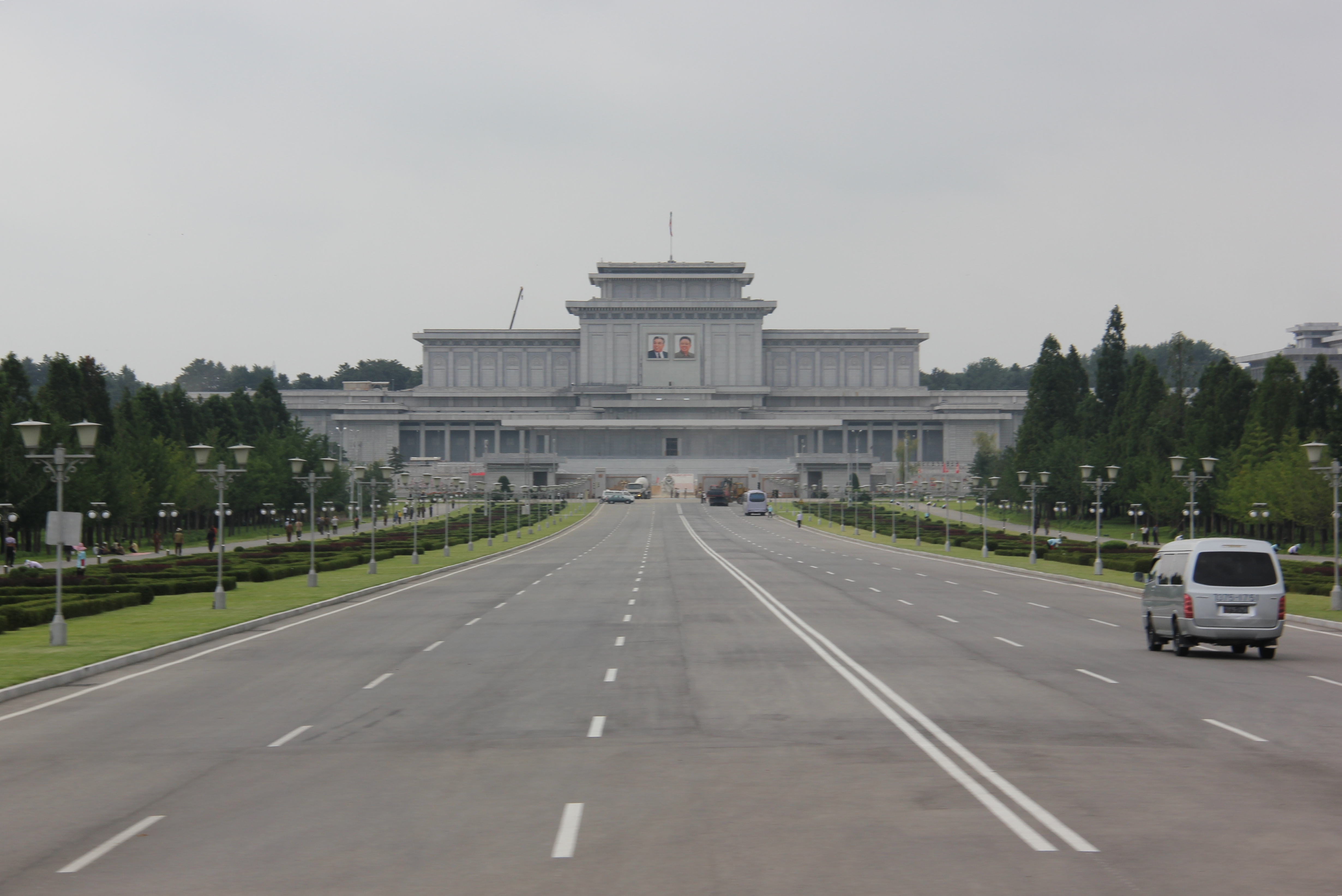 Under construction to add another inhabitant ;) They also changed the name from Kumsusan Memorial Palace to Kumsusan Palace of the Sun. The Kim Jong Il portrait is new too.